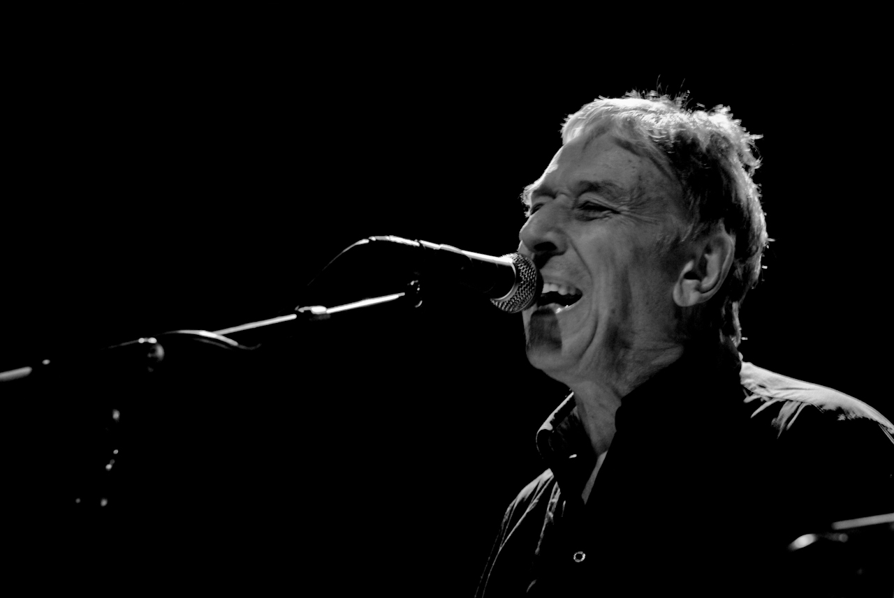 John Cale at Le Chabada, Angers, France, 14 October 2011